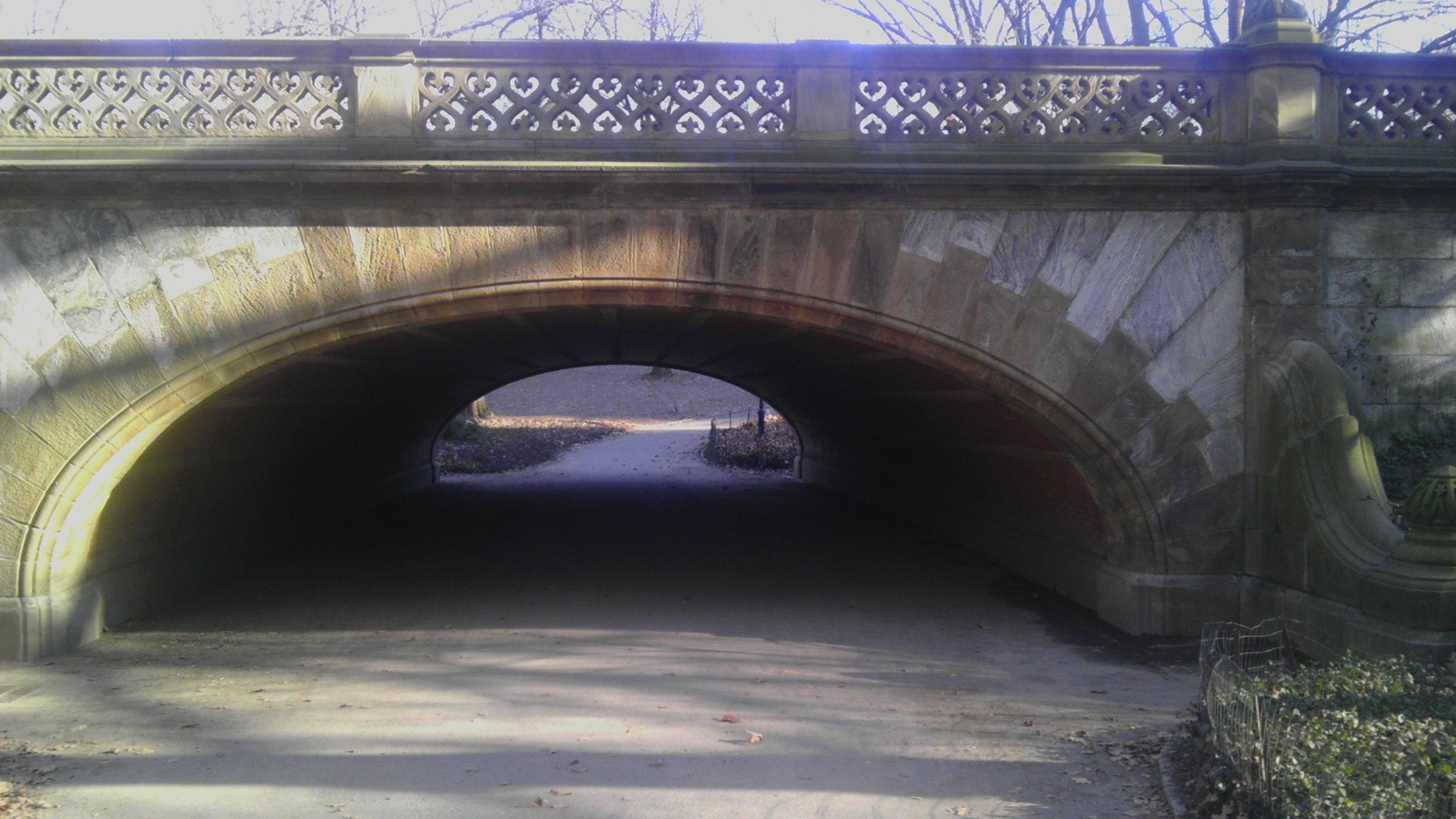 Looking east on a sunny afternoon.